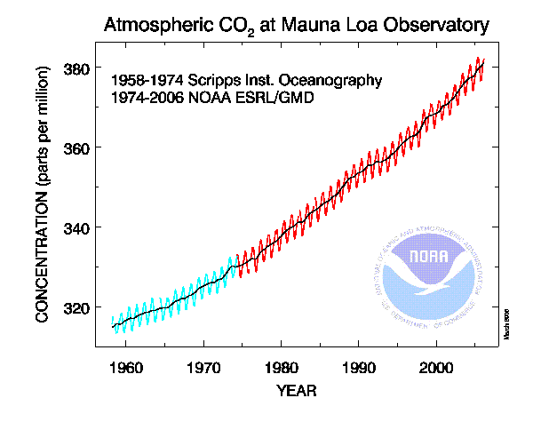 A graph depicting CO2 levels. The cause for the yearly rise and fall is the annual cycle of plant respiration. Since there is more landmass in the northern hemisphere, the cycle is dominated by CO2 drawdown by photosynthesis during the northern hemisphere summer; in winter the plants become a net source.